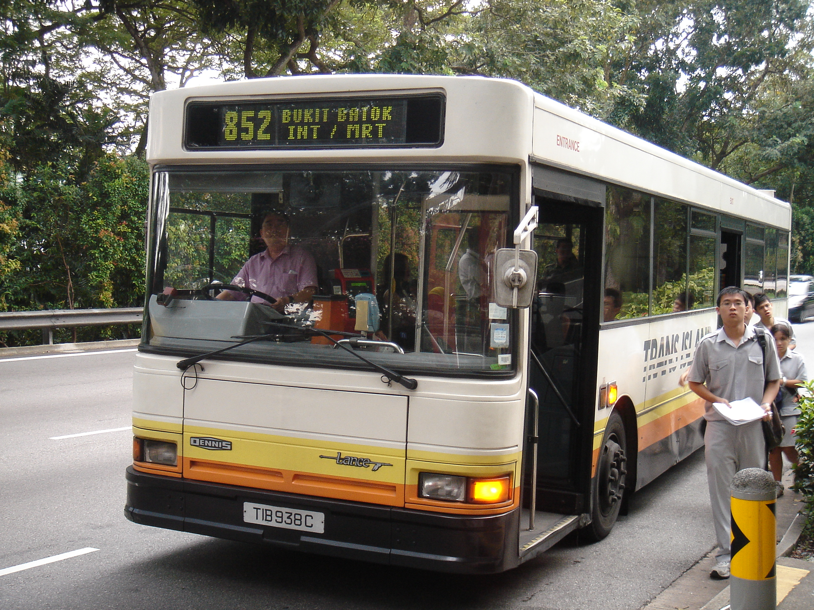 Duple Metsec bodied UMW-Dennis Lance (TIB938C, built 1998), Trans-Island Bus Services (now SMRT Buses), outside Hwa Chong Institution (High School).